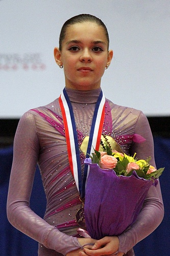 Adelina Sotniкova at the Junior Grand Prix Final 2010